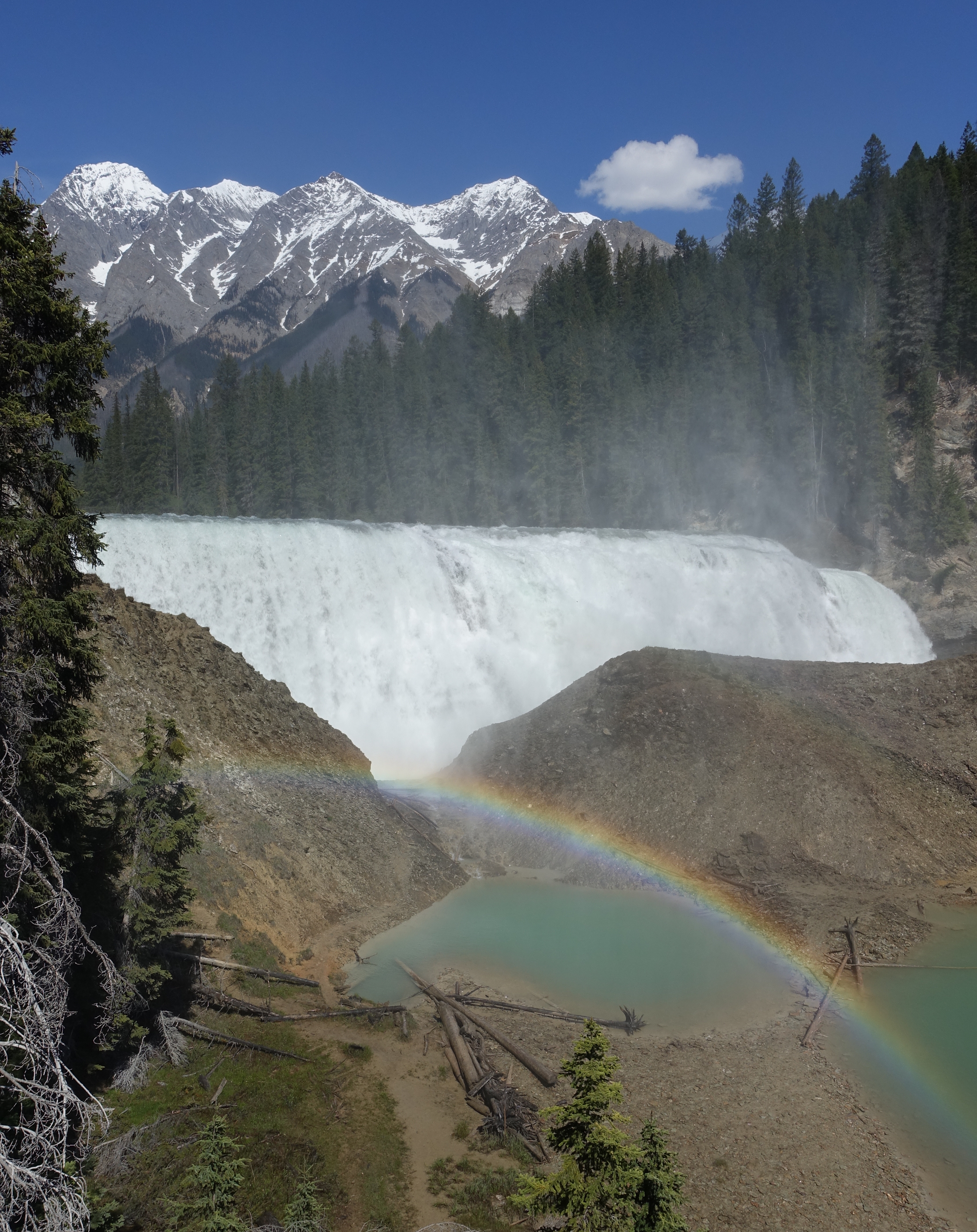 Wapta Falls on Kicking Horse River in late May. Chancellor Peak is visible in the background on the left side. Water droplets sprayed into the air produced a double rainbow.